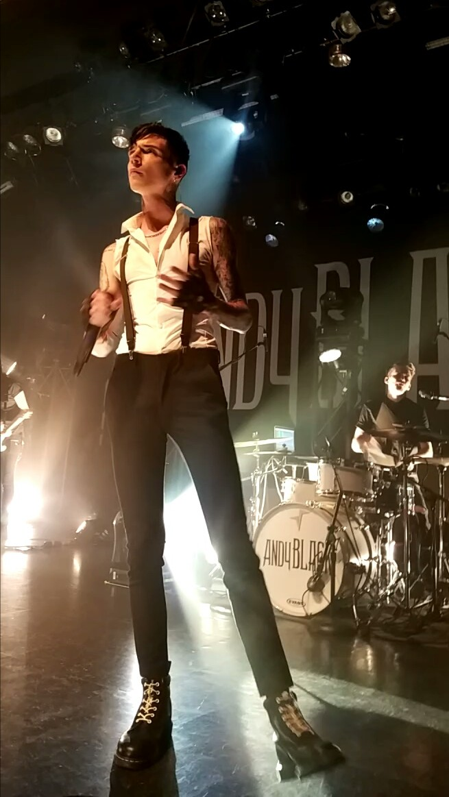 Andy on El Rey Theatre LA.